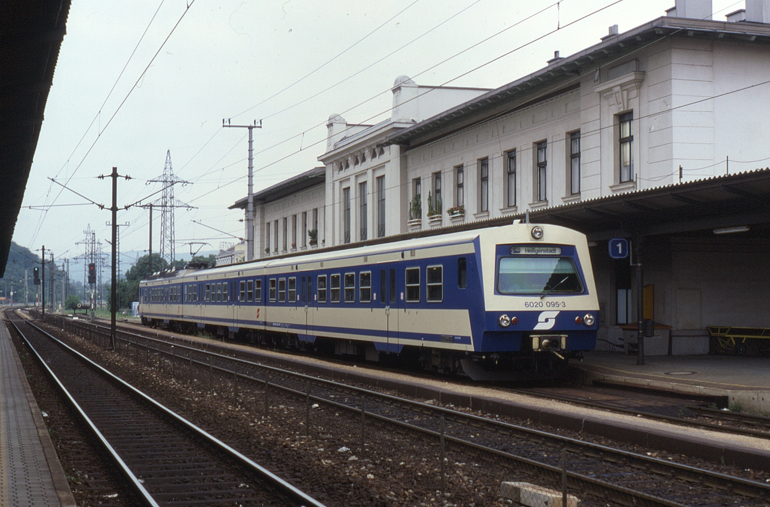 4020.095 at Wien Hütteldorf on 6 August 1988 - these worked the S-Bahn local serves around the city and to neighbouring towns.